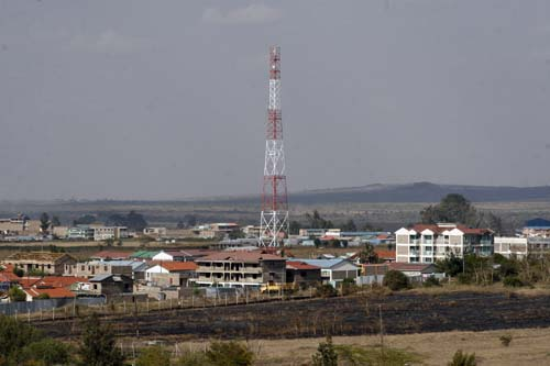 Athi River town is set to become the communication hub in Kenya to be known as the "Digital Village"